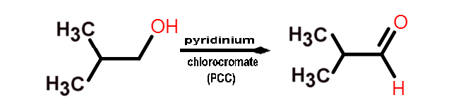 Isobutyraldehyde synthesis from isobutanol